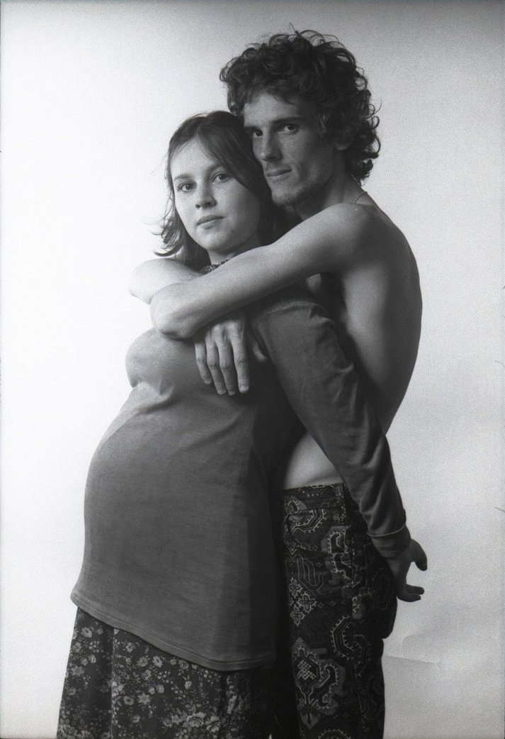 Luis Alberto Spinetta and Patricia Salazar waiting for the arrival to the world of Dante.